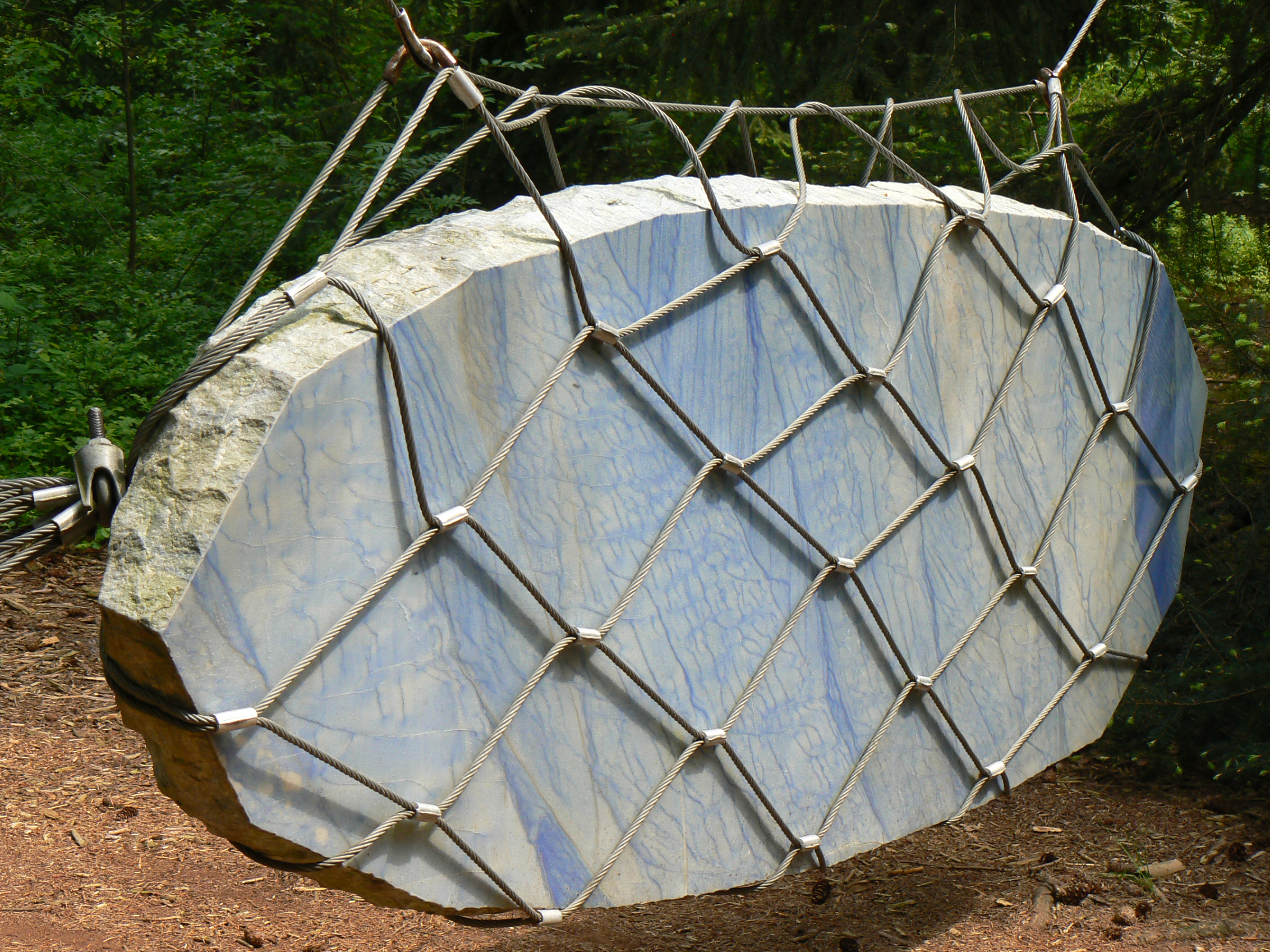 sculpture La doppia faccia del cielo (1986) by Luciano Fabro in sculpturepark KMM/The Netherlands